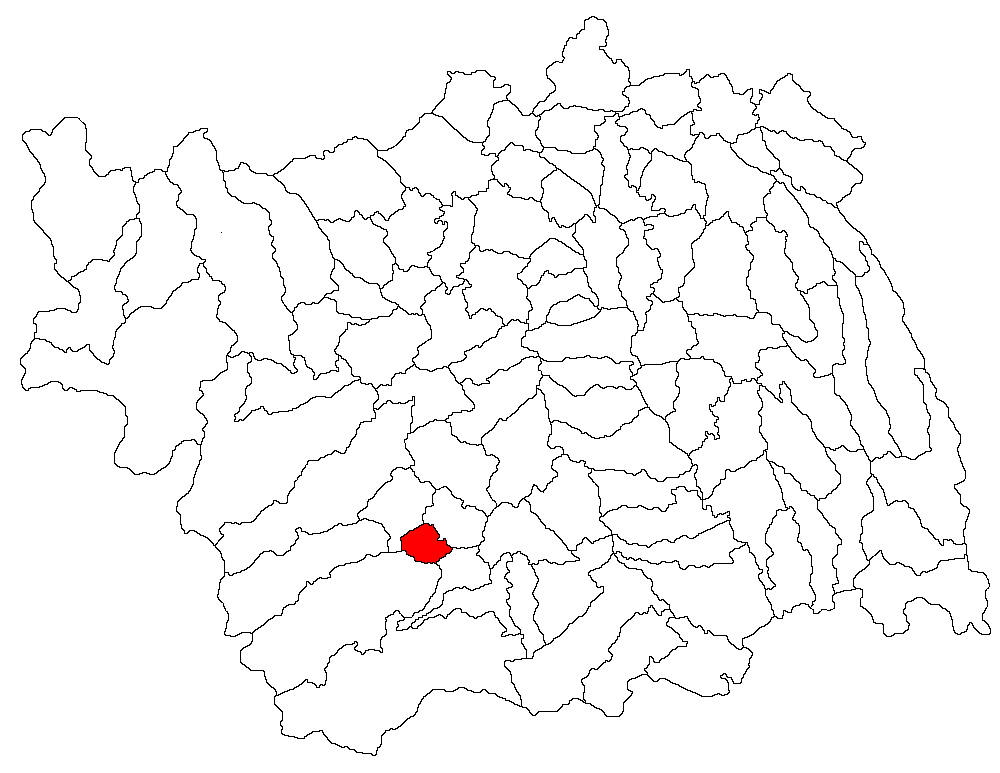 Locator map of the commune of Pârgărești, Bacău County Romania